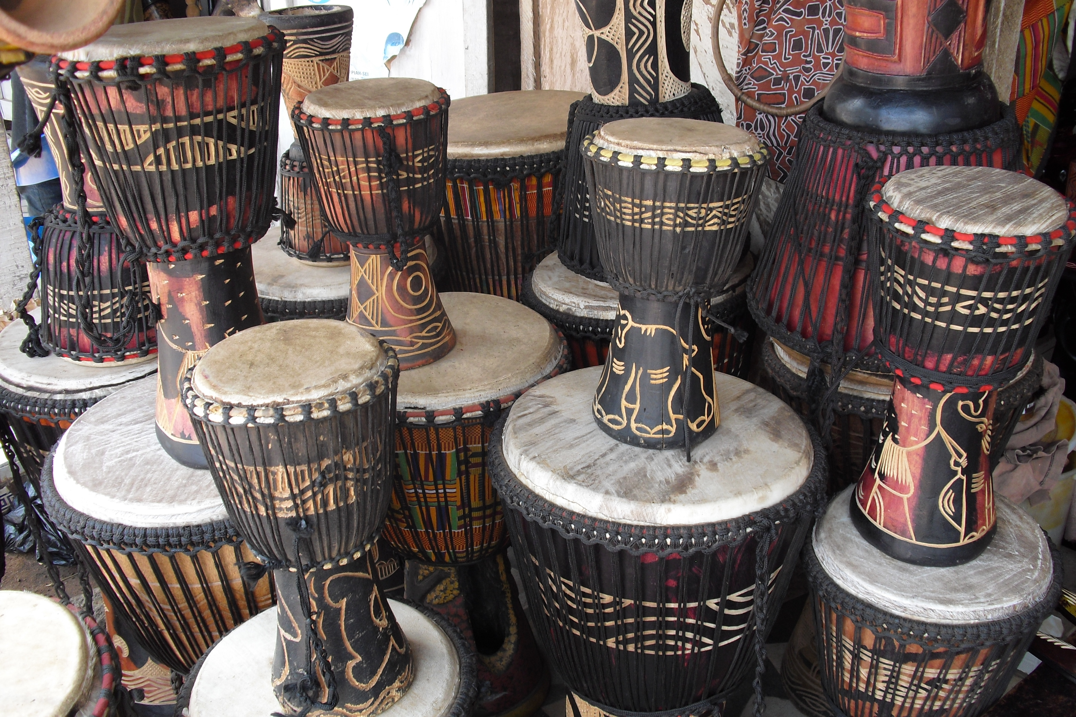 Djembe drums for sale in the wood carving craft village of Ahwiaa in the Ashanti Region, Ghana